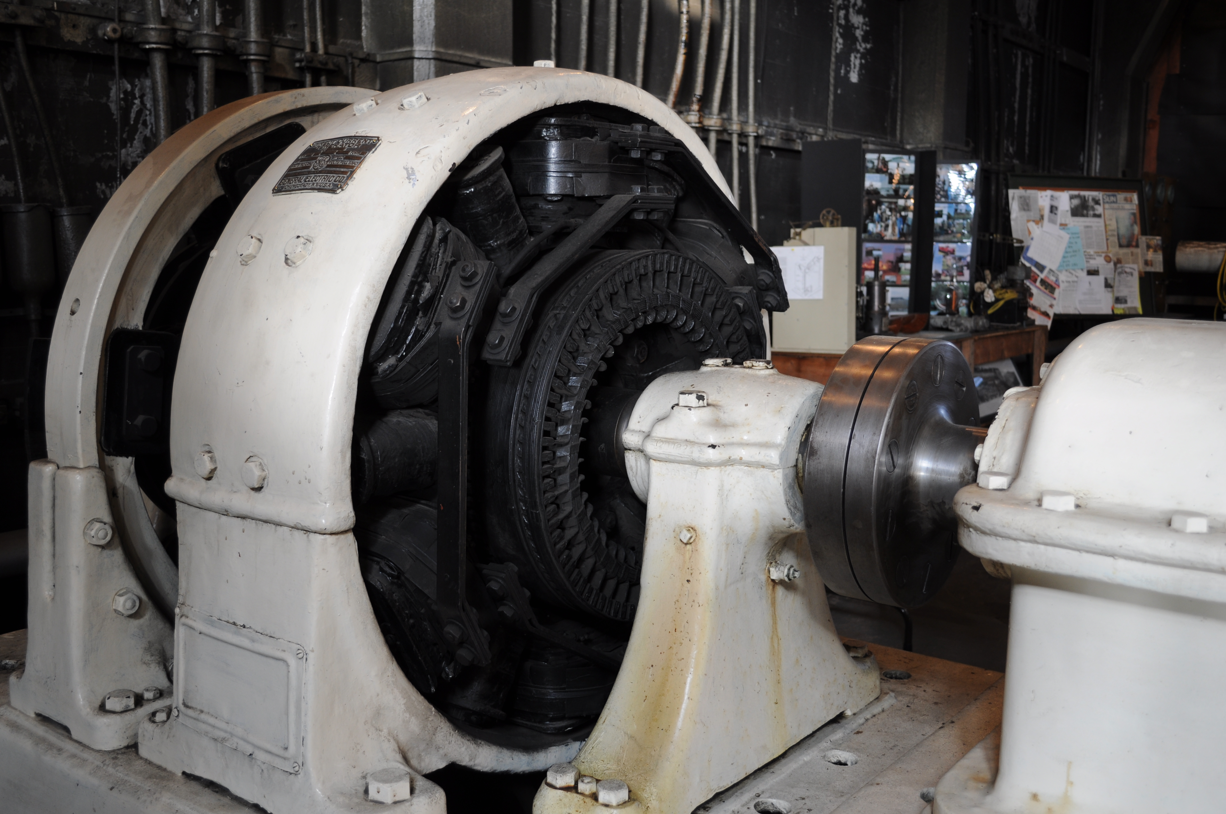 General Electric DC generator, Georgetown PowerPlant Museum, Georgetown, Seattle, Washington. If someone is more familiar with the technology depicted, feel very free to flesh out this description.